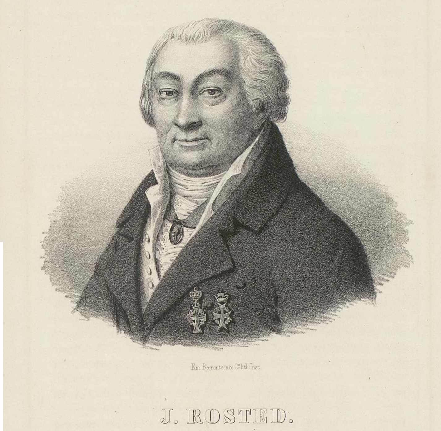 Lithograph of Jacob Rosted (1750-1833), by "Em. Bærentzen & Co. Lith. Inst. i Kiøbenhavn"